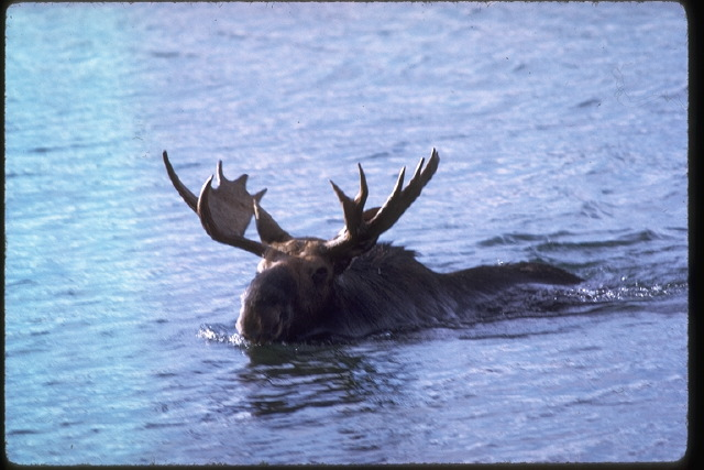 Moose swimming off Isle Royale National Park